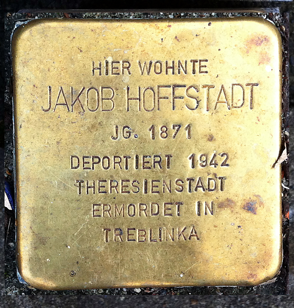 Stolperstein - Stumbling Stone in Nettetal, NRW, Germany Jakob Hoffstadt